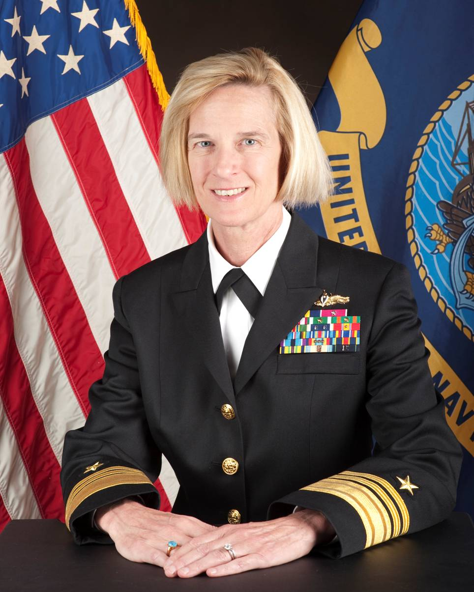 official photo of VADM Carol M. Pottenger